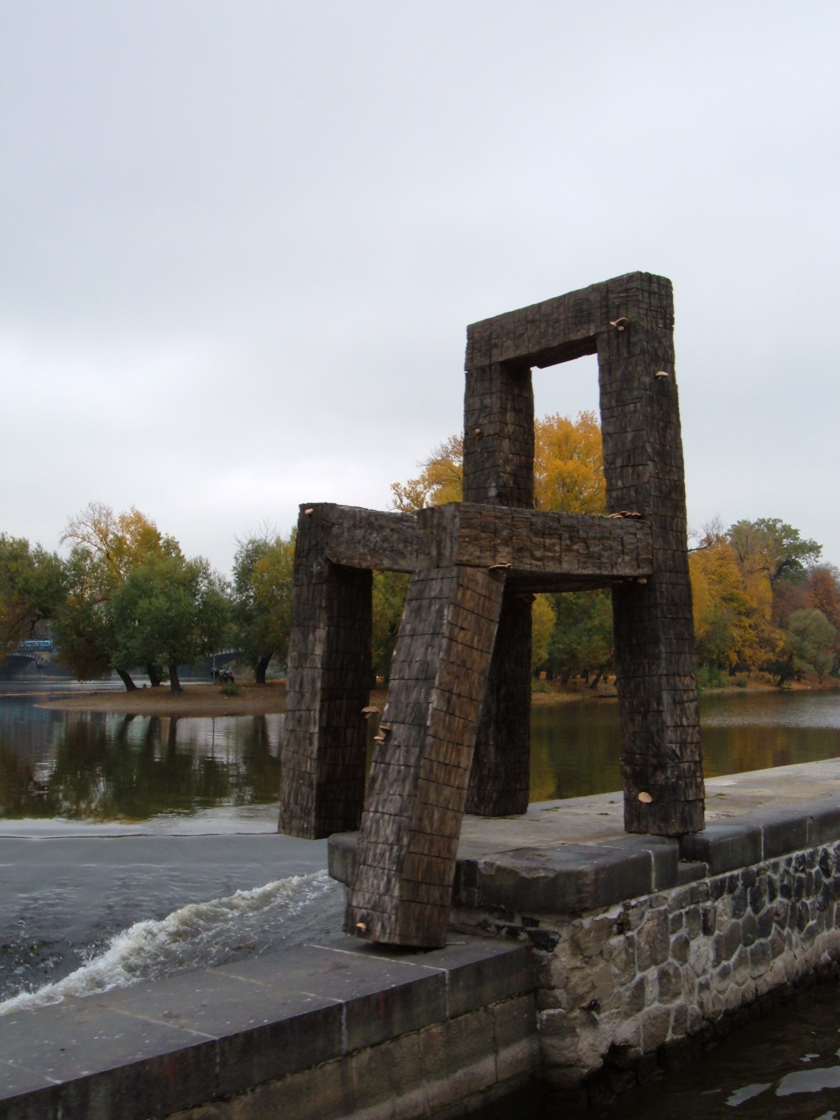 On the Vltava in Prague, Czech Republic.